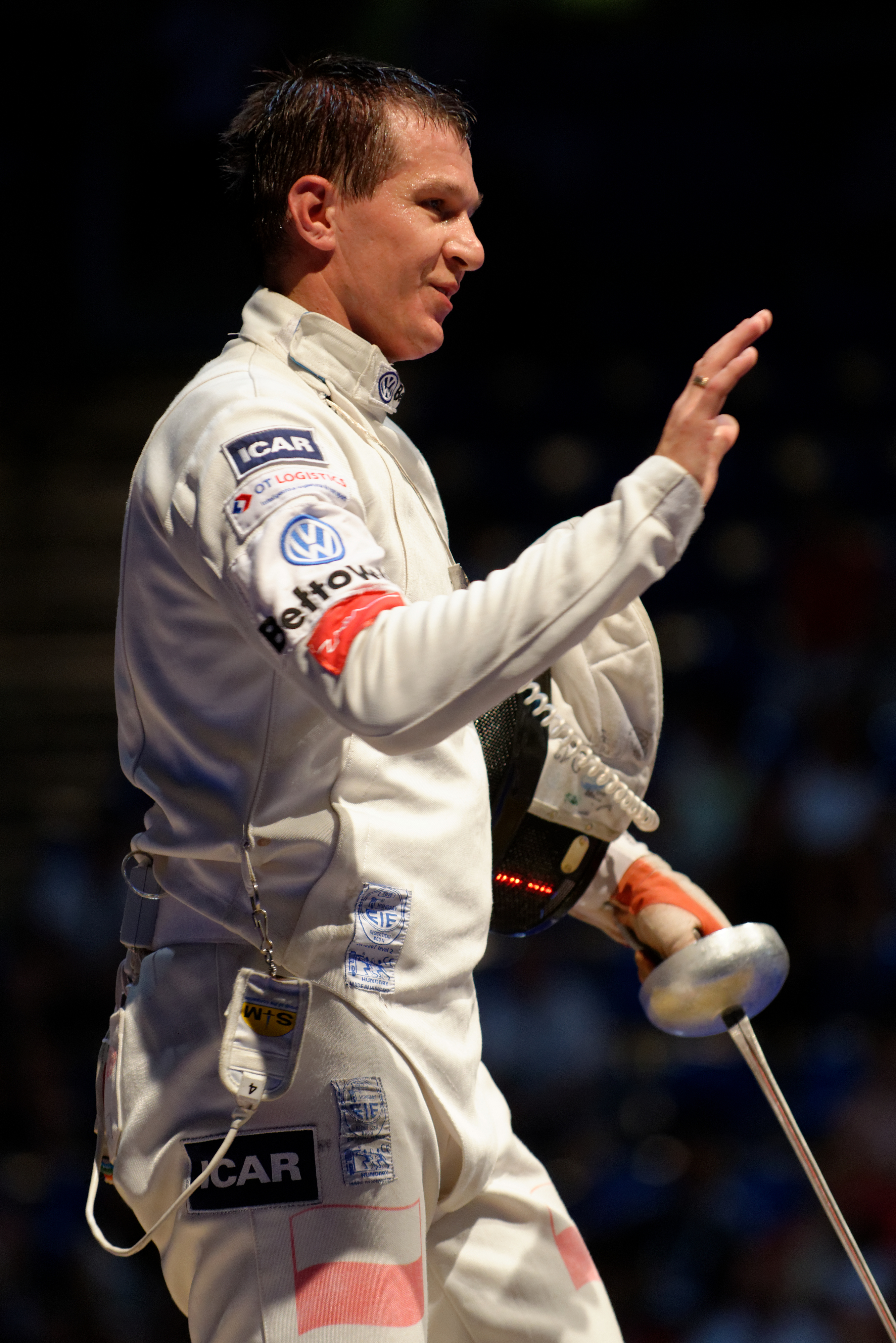 Poland's Radosław Zawrotniak during his bout against Alexandre Blaszyck from France in the table of 32 of the men's épée event in the 2013 World Fencing Championships 2013 at Syma Hall in Budapest, 8 August 2013.